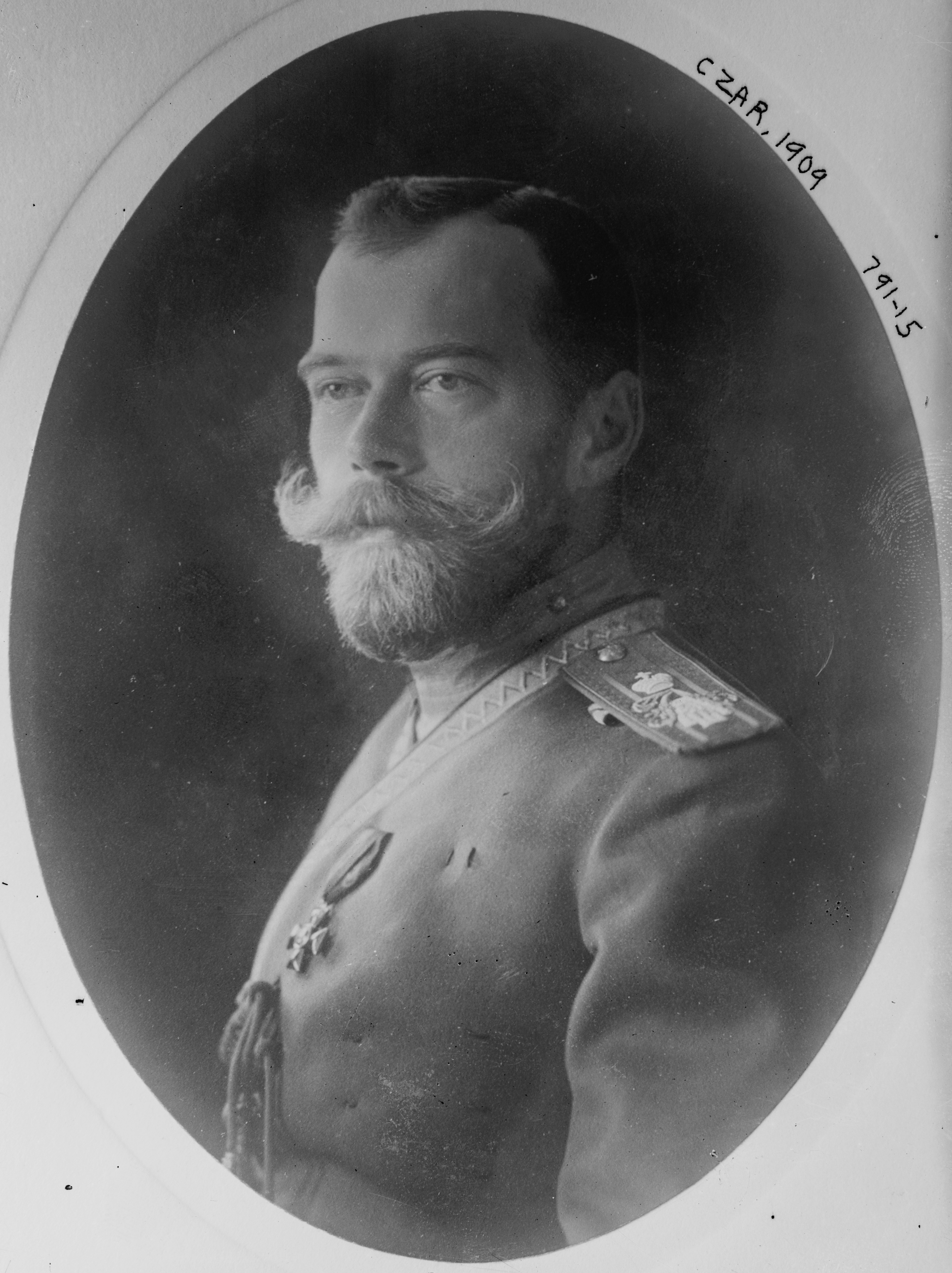 Nicholas II of Russia